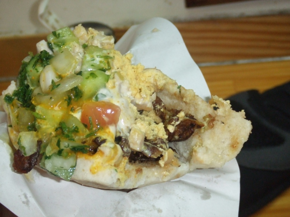 Sabich, Iraqi-Jewish pita sandwich popular in Israel; main ingredients: fried eggplant, hard-boiled eggs, onions, Israeli salad, hummus & tehina, stuffed in a pita